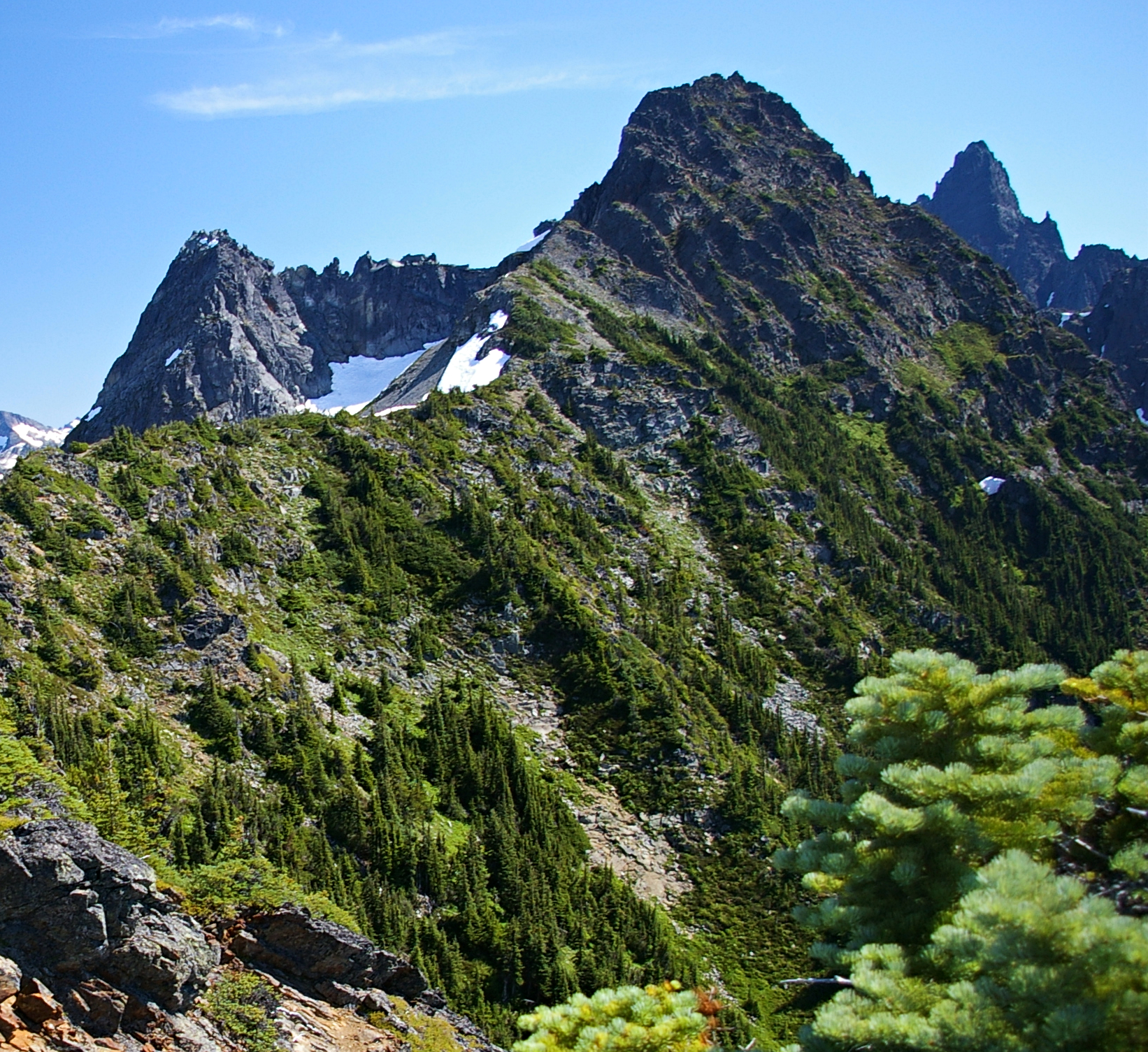 Crossover Peak, northwest aspect, seen from Mount MacFarlane